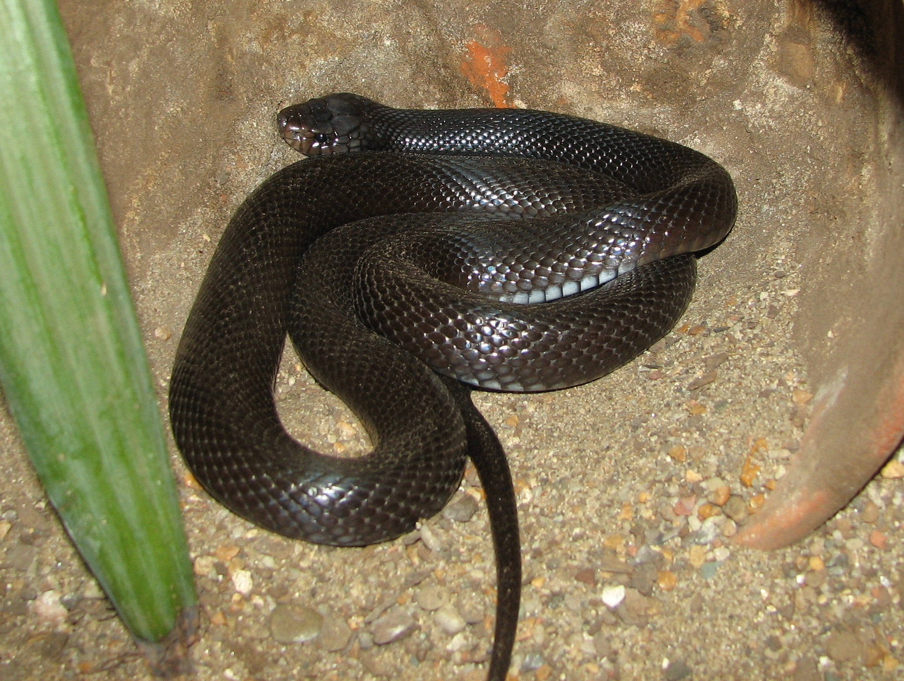 Sinai Desert Cobra / Walterinnesia aegyptia / Taken At Louisville Zoo, Ky